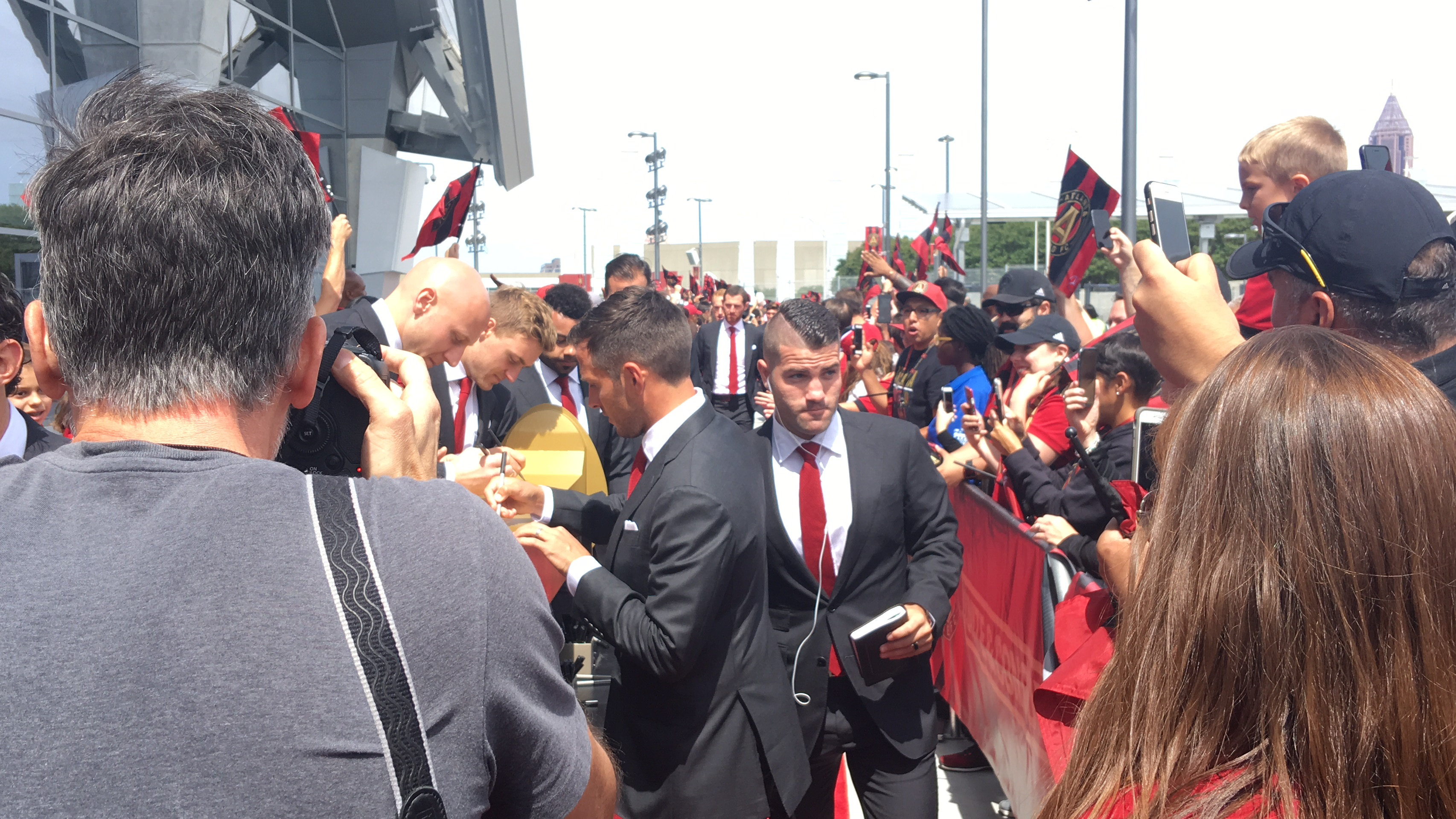 Greg Garza, Atlanta United September 10, 2017 After signing the Golden Spike